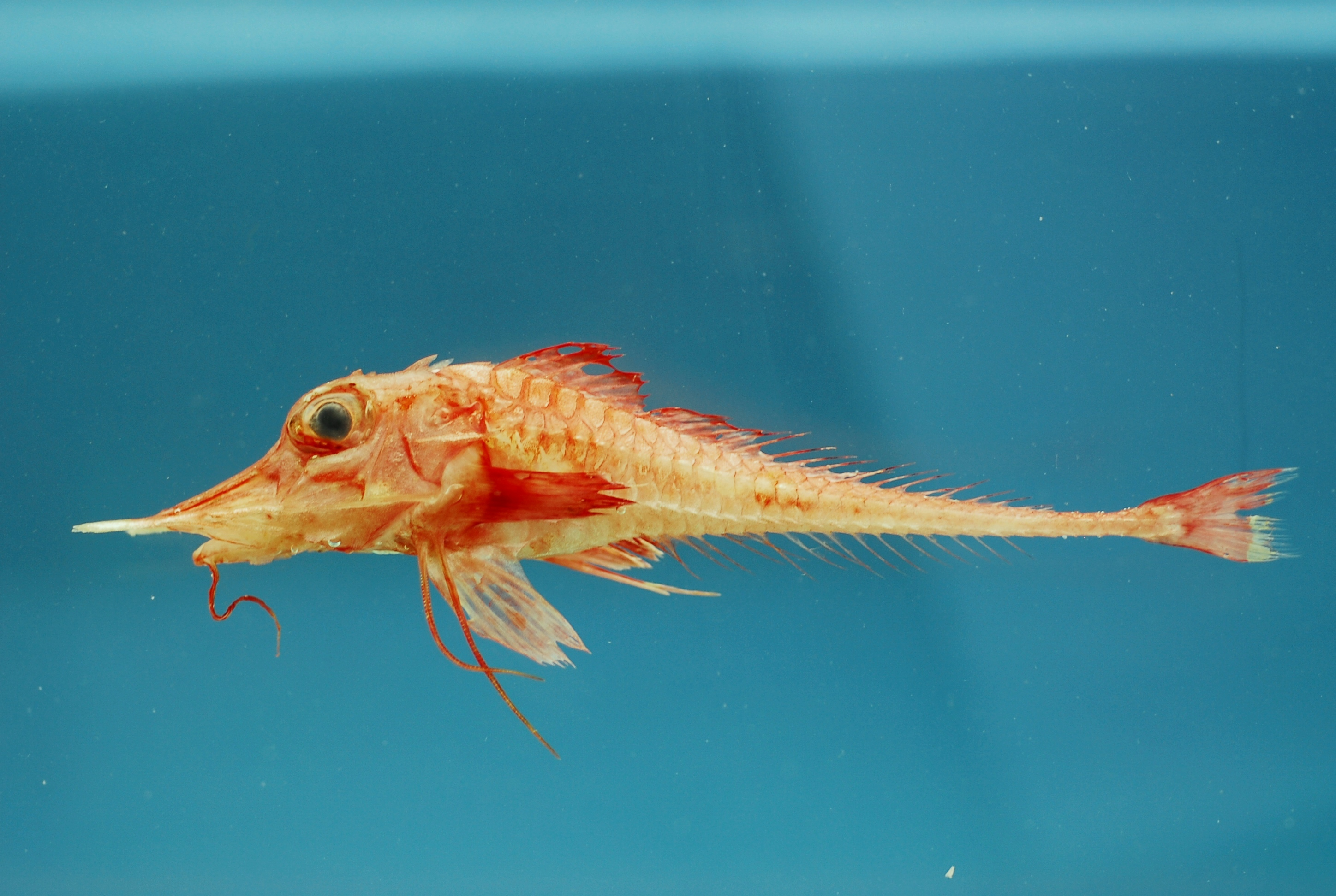 Alligator searobin ( Peristedion greyae )